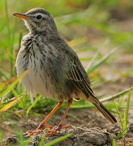 A very range-restricted pipit of calcareous coastal grassland confined to the North Kenyan coast and extending into the adjacent bandit country of south coastal Somalia. This image was taken at Gongoni north of Malindi in north coastal Kenya.